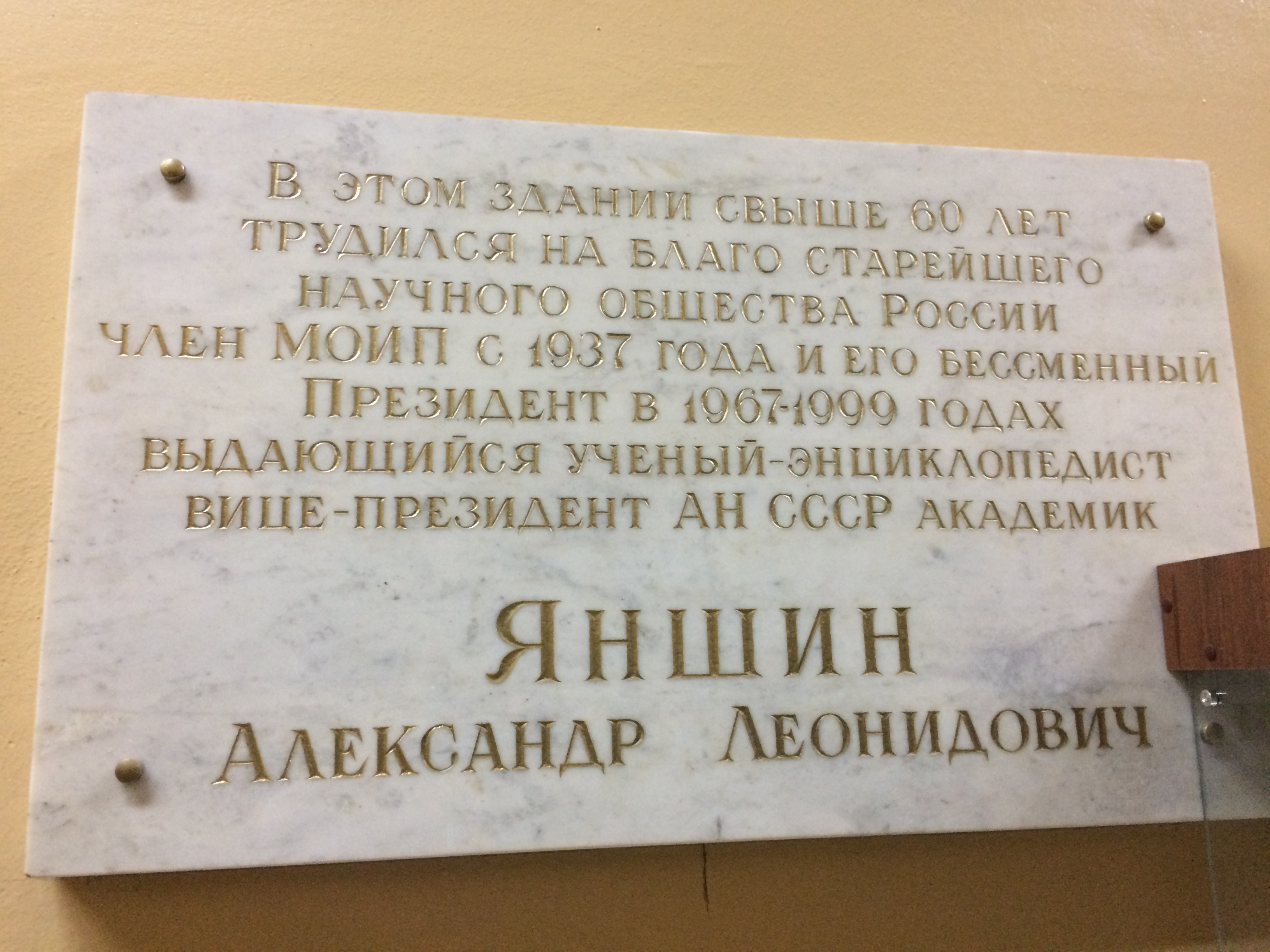 Moscow naturalists society.